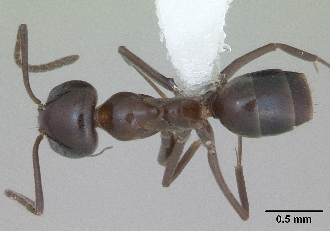 Dorsal view of ant Dorymyrmex bituber specimen casent0173842.